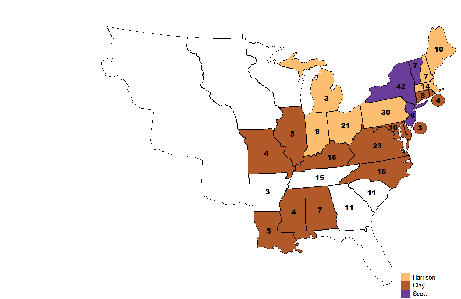 Results by State Delegation of the 1st Ballot for the 1839 Whig Party Presidential Nomination.